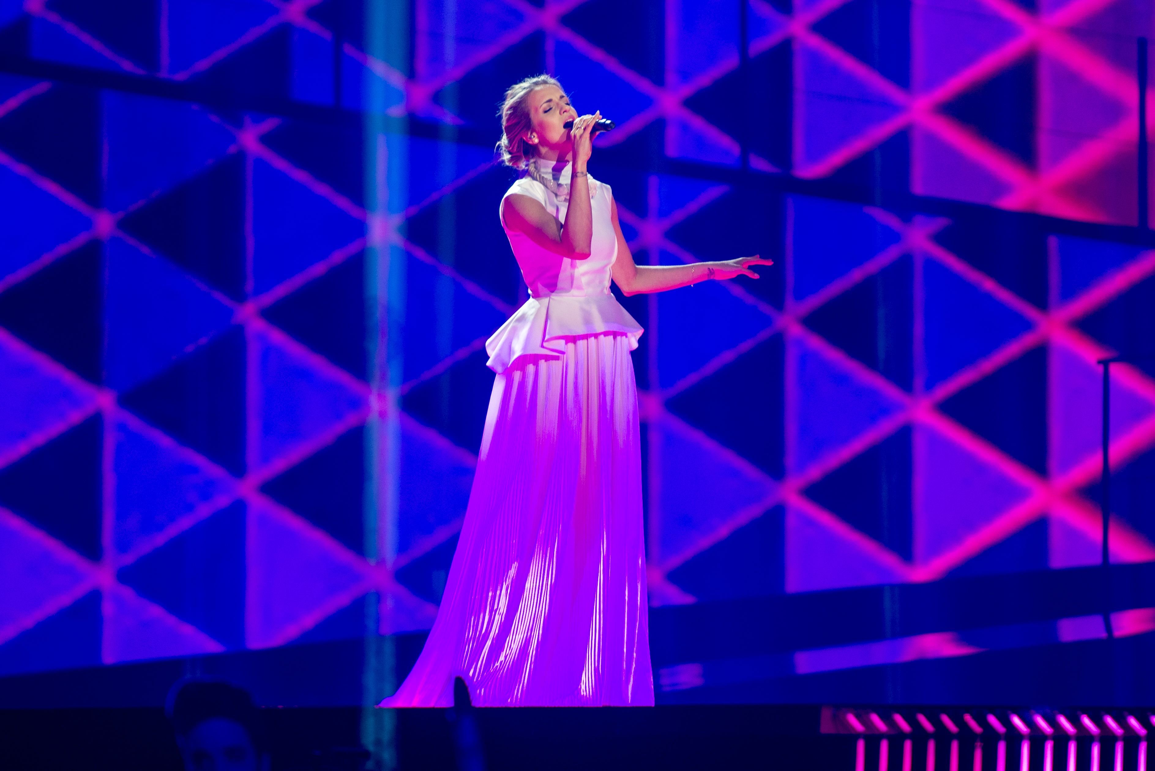 Gabriela Gunčíková representing Czech Republic with the song "I Stand" during a rehearsal before the first semi final of the Eurovision Song Contest 2016 in Stockholm. (Help translate this text)